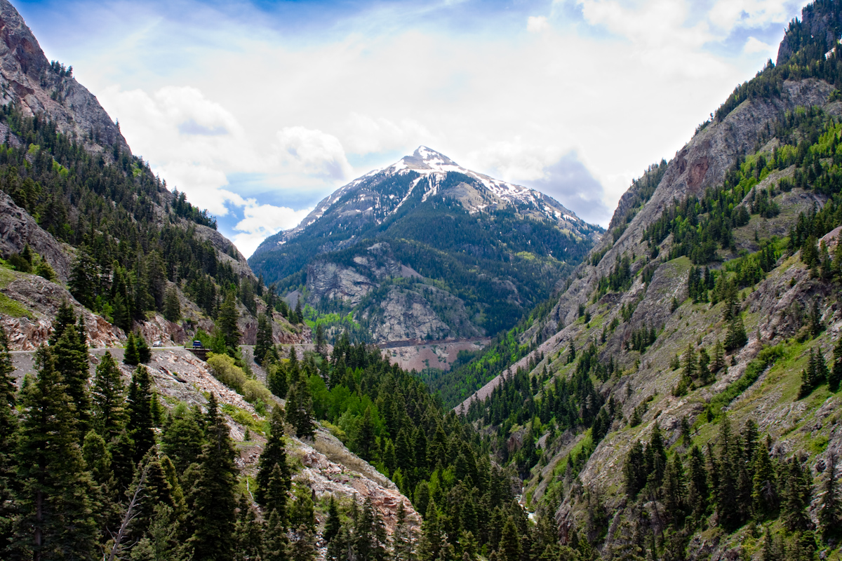 Uncompahgre Gorge and Mount Abrams between Silverton, Colorado and Ouray, Colorado on Highway 550